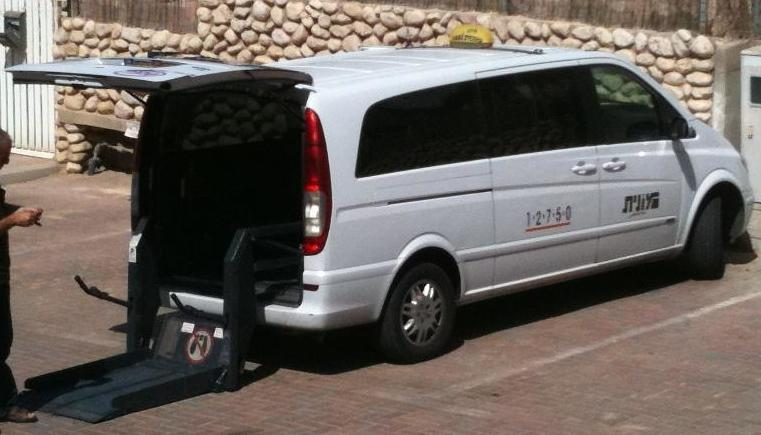 A taxi cab in Beer-Sheva, Israel that is accessible to motorized-wheelchair users.